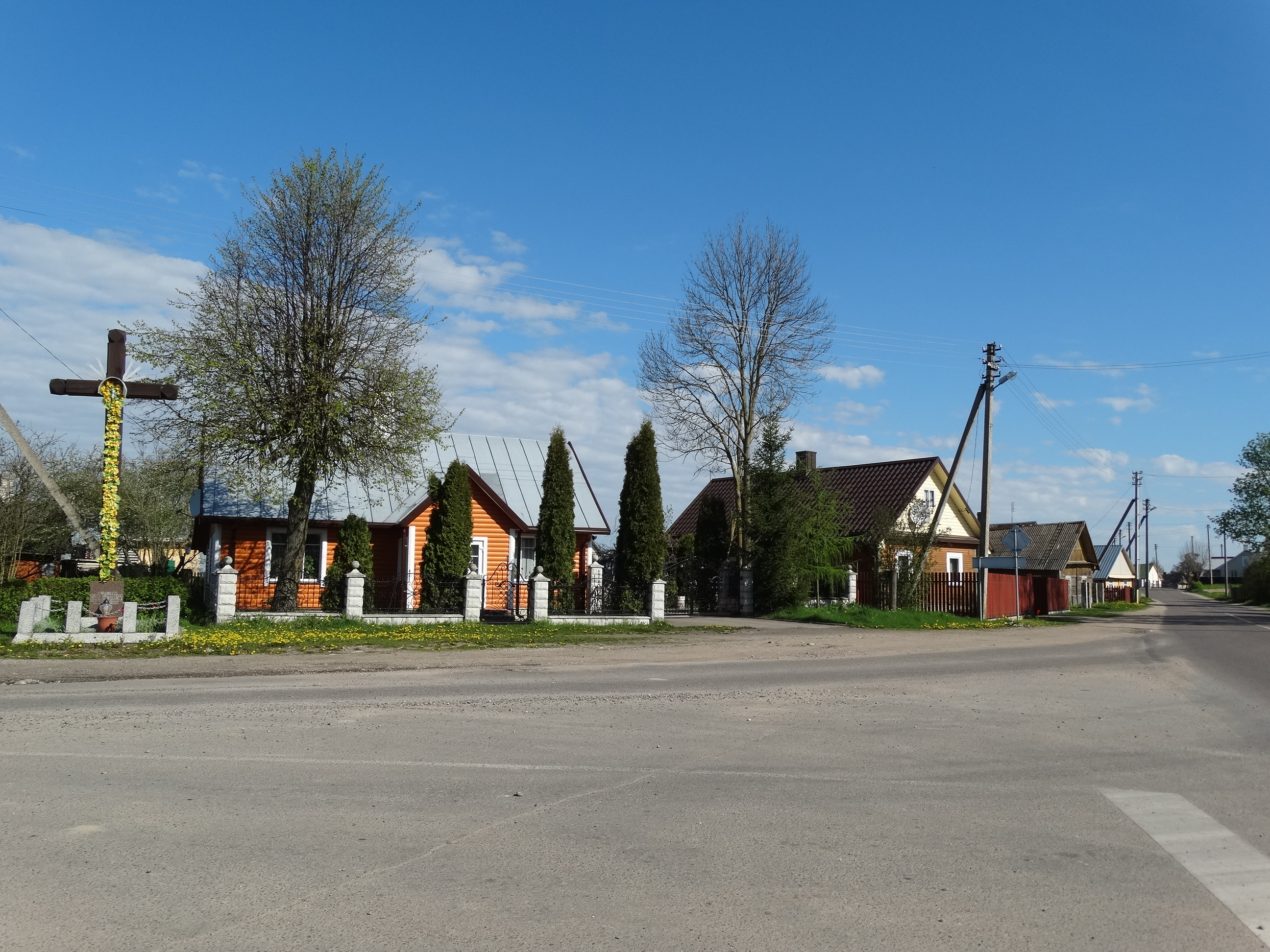 Butrimonys, Šalčininkai District, Lithuania